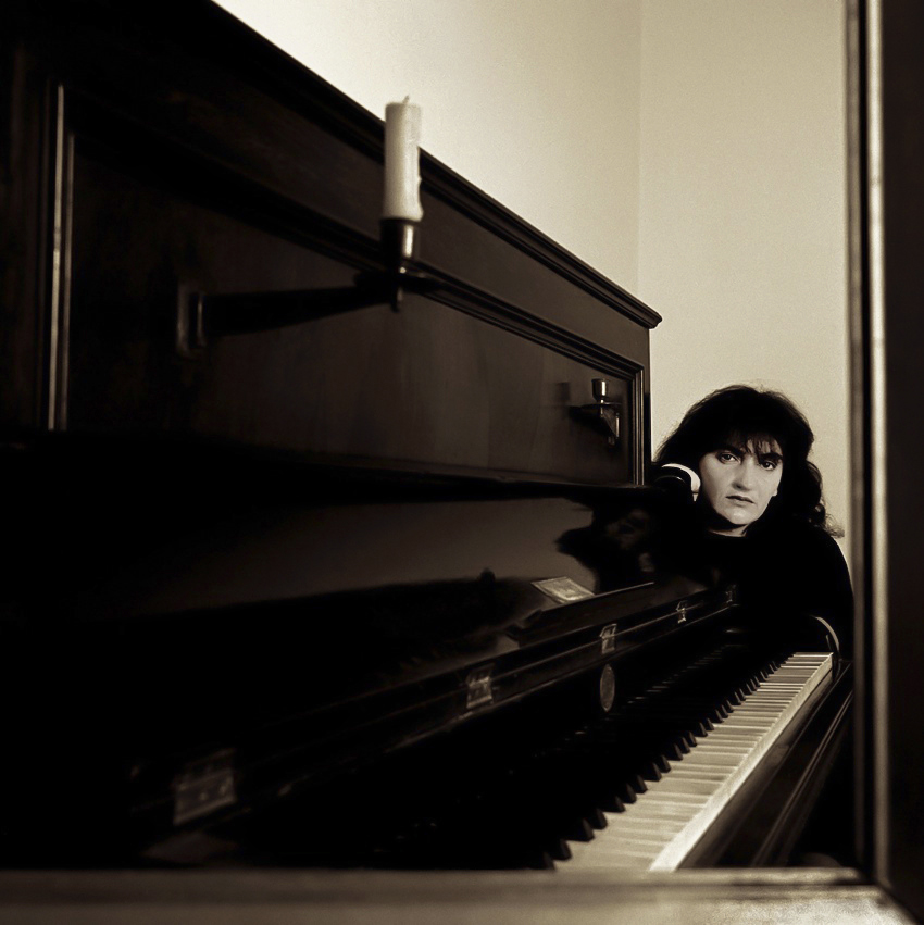 Portrait of Maria Luisa Santella - Augusto De Luca photographer